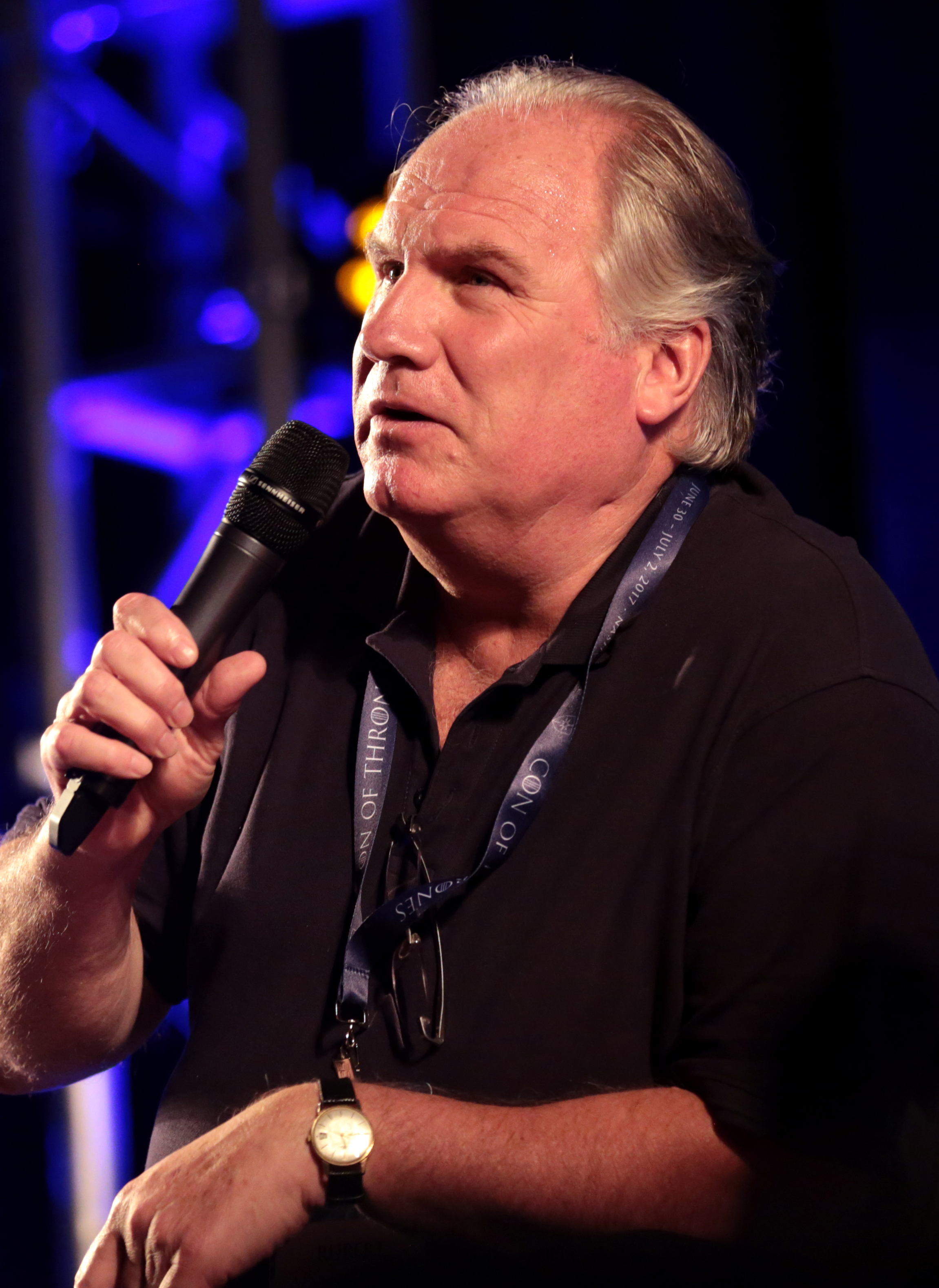 Rupert Vansittart speaking at an event in Nashville, Tennessee.